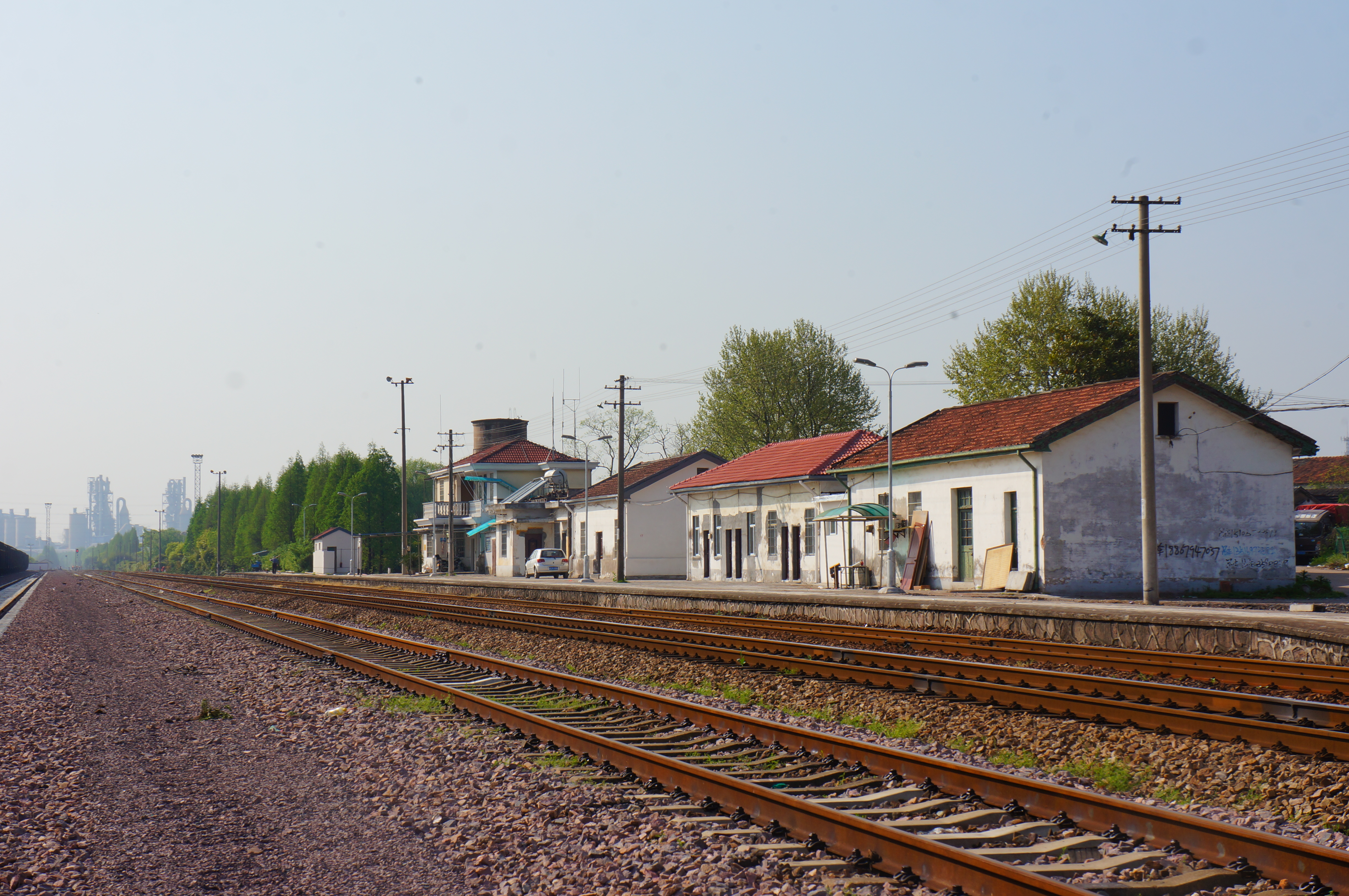 201704 Zhumaguan Station Overview